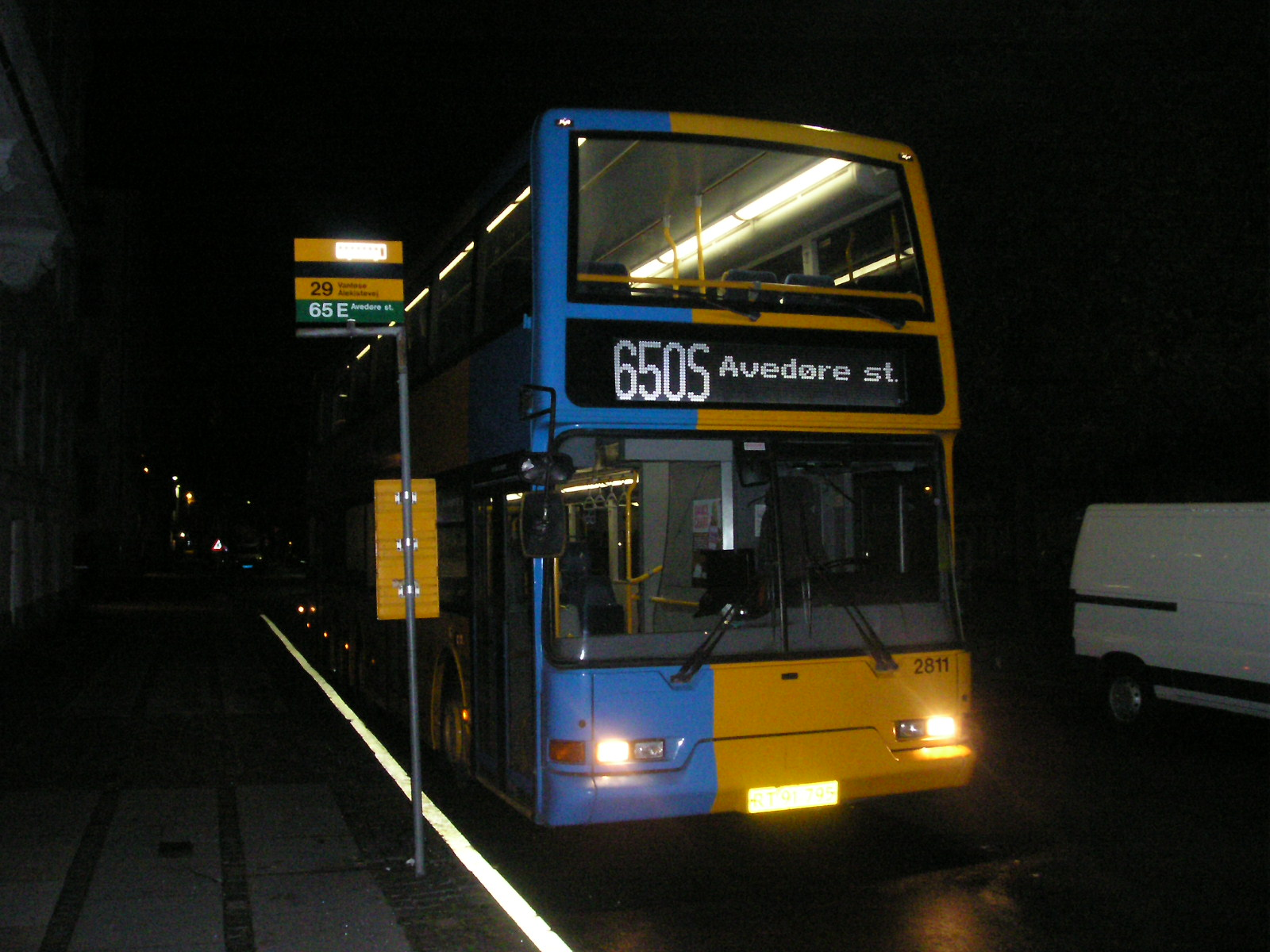 The very last HT bus line 650S at Sankt Annæ Plads in Indre By in Copenhagen.